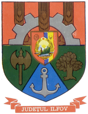 Communist coat of arms of Ilfov County, Socialist Republic of Romania.